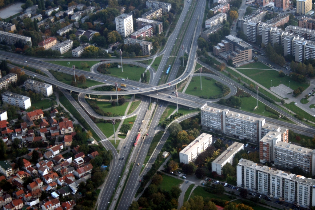 Interchange of Slavonska Avenue and Marin Držić Avenue in Zagreb, Croatia, from air